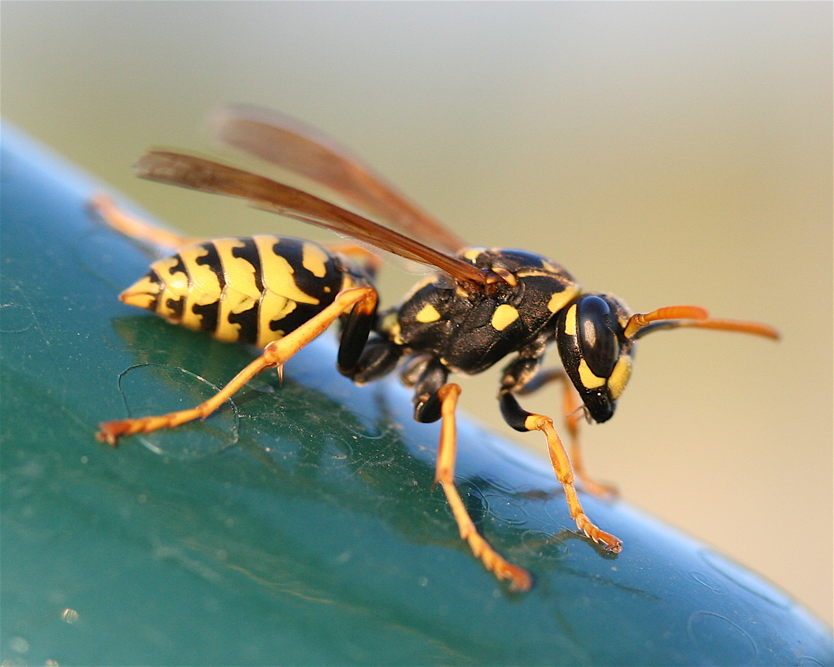 Polistes dominulus (originally misidentified)